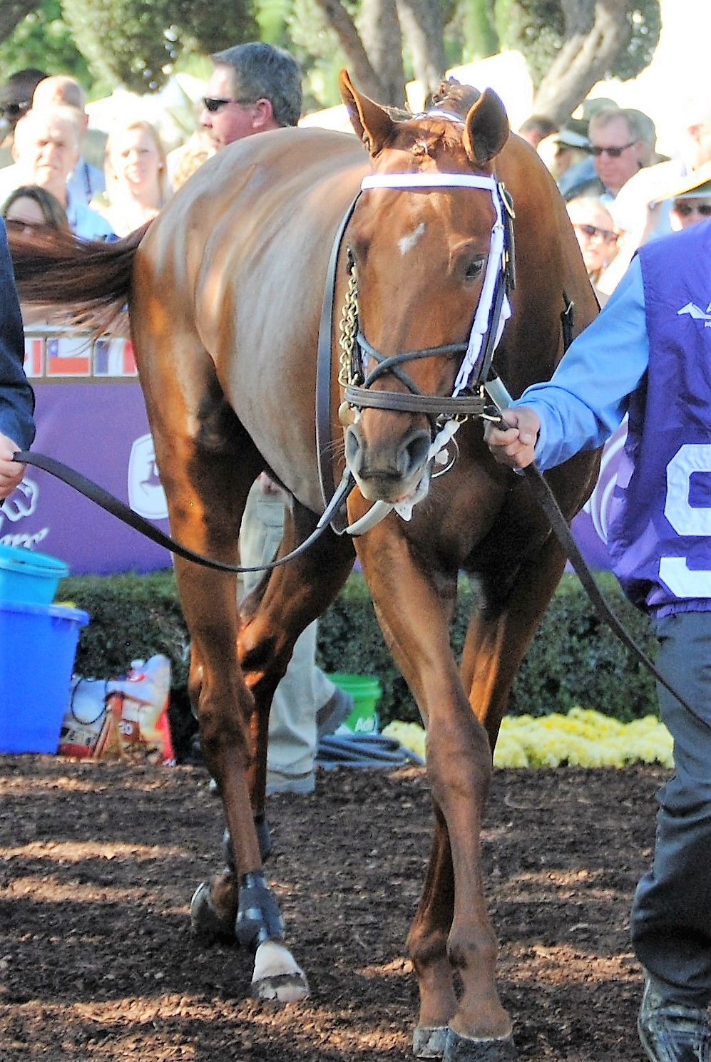 Gun Runner preparing for the Breeders' Cup Dirt Mile. Jockey Florent Geroux. Trainer Steve Asmussen on the right